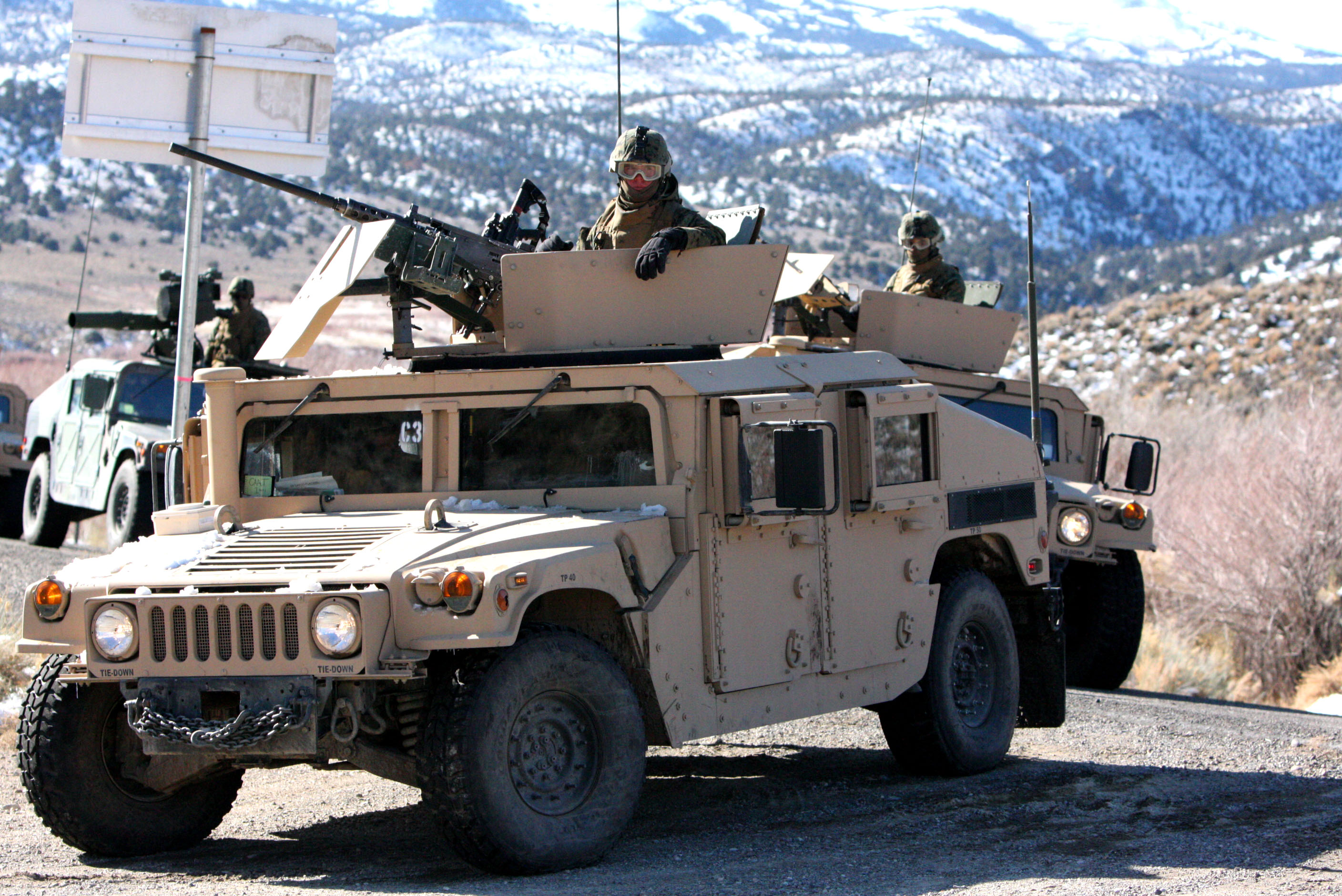 U.S. Marines and sailors turn off a main road on their way to a convoy training exercise from Bridgeport, Calif., to Hawthorne Army Ammunition Depot in Hawthorne, Nev., March 7, 2009. The Marines and sailors are assigned to Weapons Company, 3rd Battalion, 4th Marine Regiment.